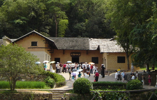 mao zedong's residence in shaoshan, xiangtan 韶山毛泽东故居 photo by efm